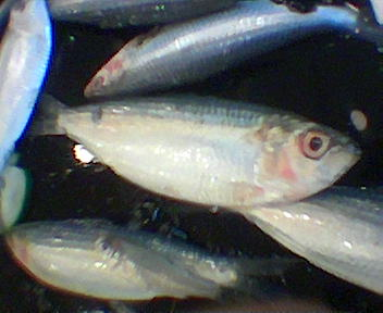 Description: This is a shot of Sardinella tawilis, an endangered freshwater fish endemic to the Philippines. At the time of the picture being taken, the fish(es) was(were) being sold in a supermarket in Metro Manila. Author: Iyan Sommerset Uploader: User:Shrumster Date: The image was taken on January 18, 2007. Location: a supermarket in Metro Manila, Philippines Camera: Nokia 7250